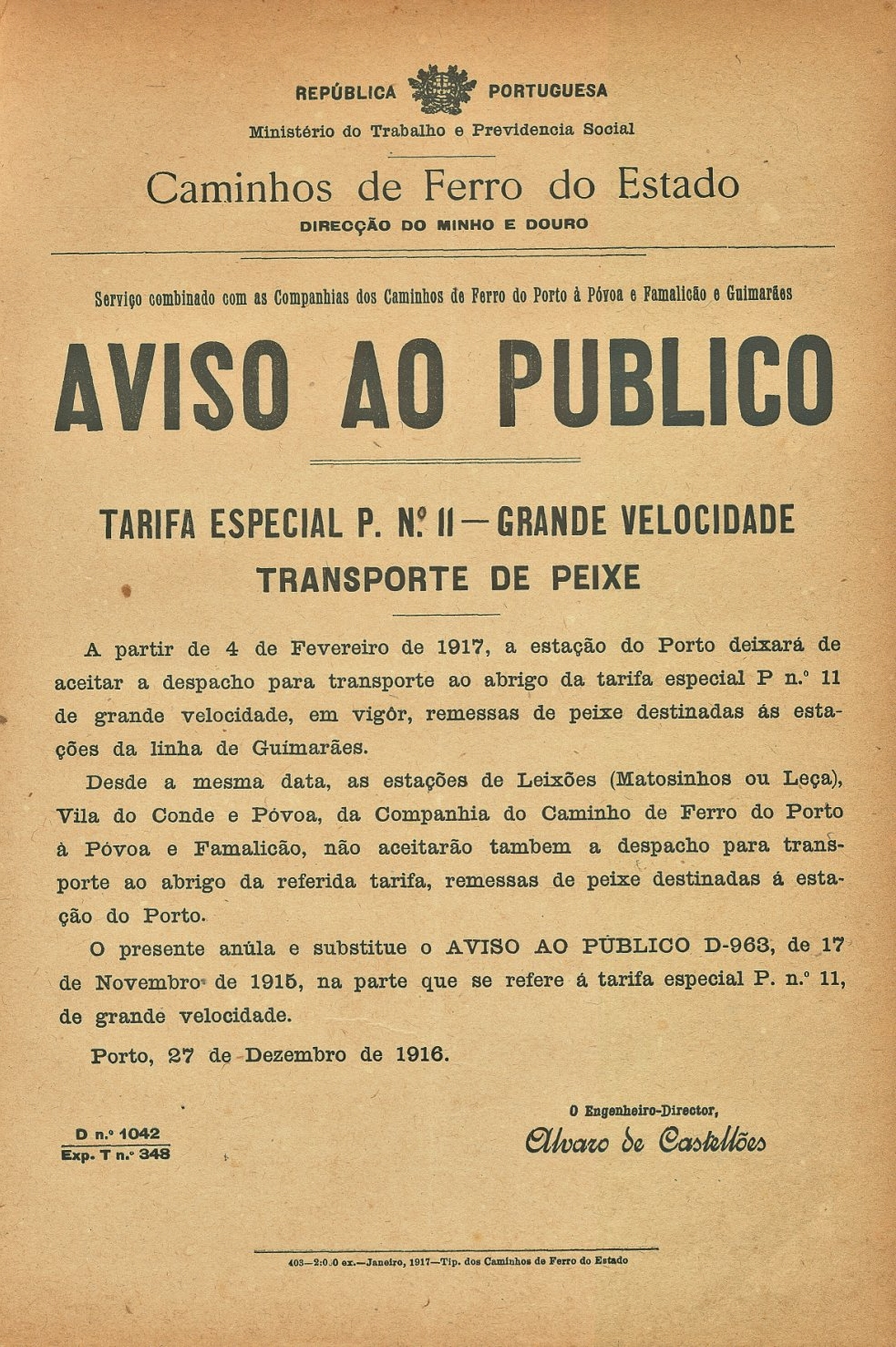 Public warning of the Caminhos de Ferro do Estado (Portuguese State Railways), in combination with the railway companies of Guimarães and Porto to Póvoa and Famalicão, about the end of the transport of fish under the special tariff 11. This image was published on the Gazeta dos Caminhos de Ferro magazine no. 700, of the 16th February 1917, and scanned by the Hemeroteca Municipal de Lisboa.